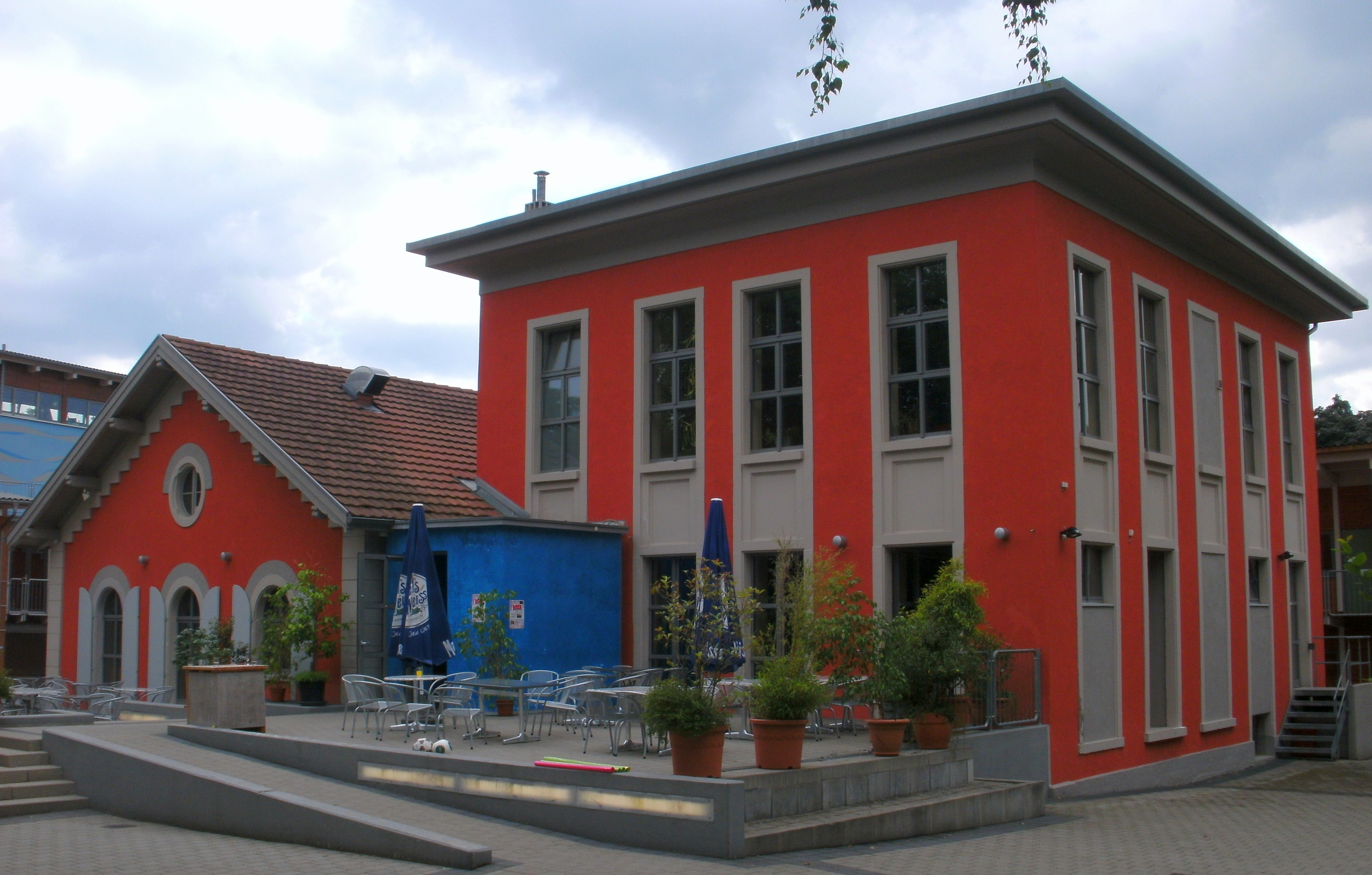 Old municipal waterworks in Lörach, Germany. Now used by the non-profit organisation "Sozialer Arbeitskreis Lörrach" (SAK) as a center for varied social work activities.